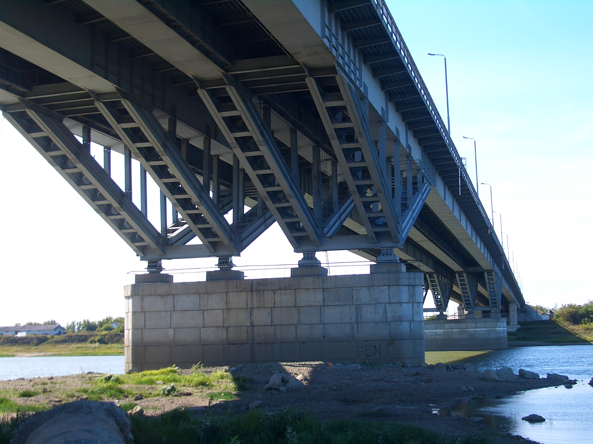 The southern bypass highway bridge over the Irtysh, on the southern outskirts of Omsk